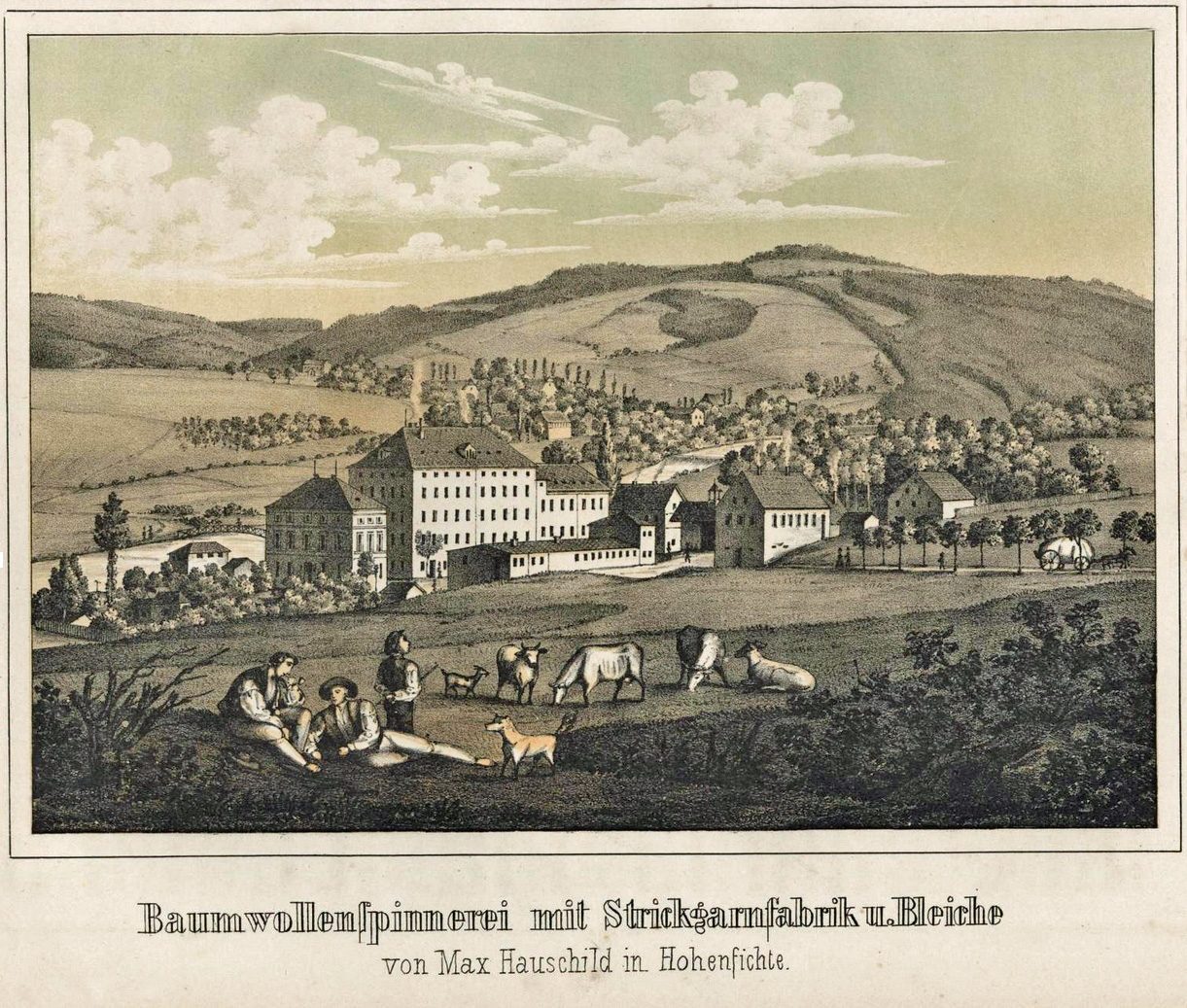 Die Baumwollspinnerei Hohenfichte um 1850